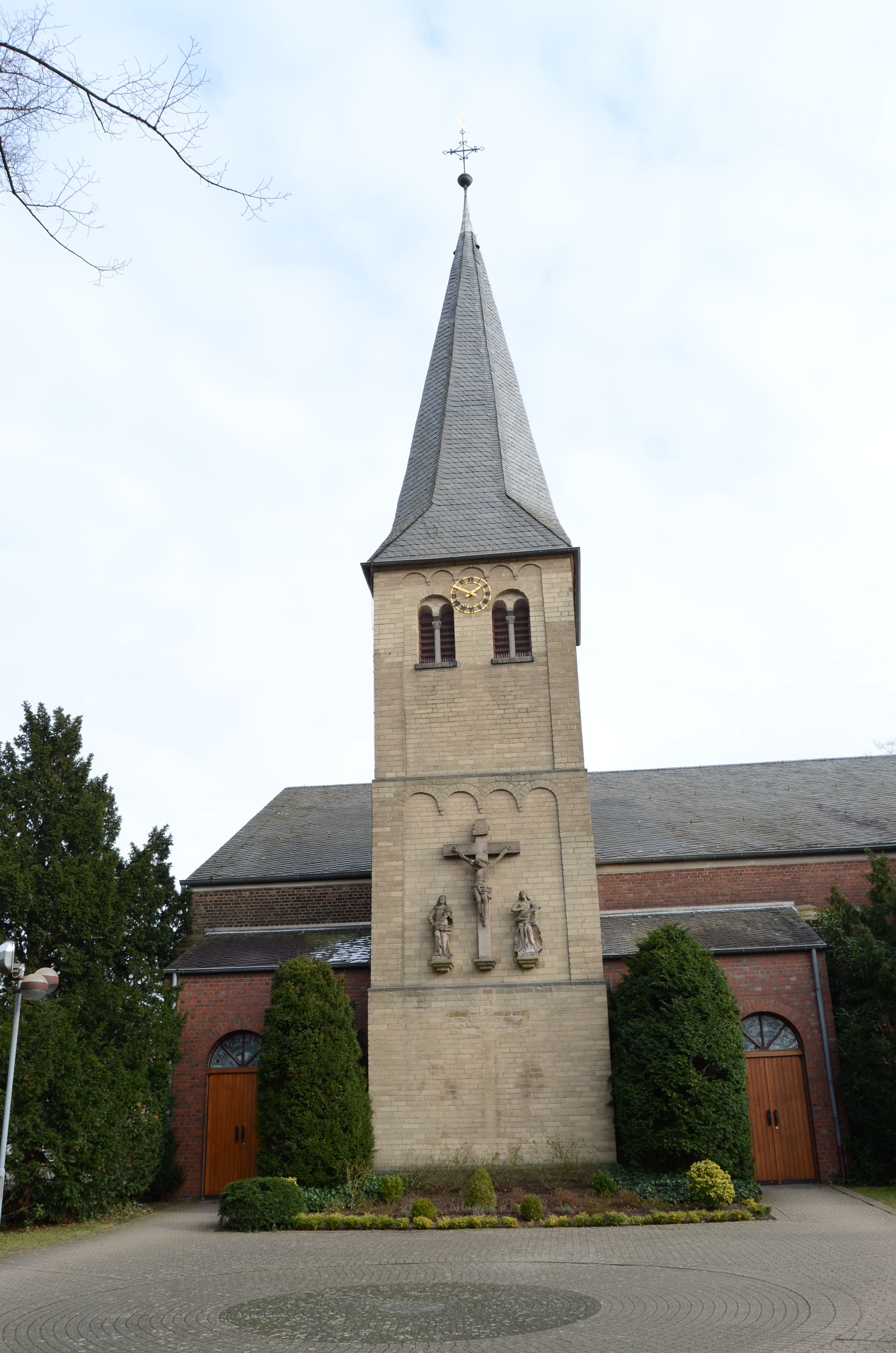 Monheim am Rhein (North Rhine-Westphalia, Germany) – district Baumberg – Catholic Saint Dionysius Church This image shows a heritage building in Germany, located in the North Rhine-Westphalian city Monheim am Rhein. This photograph was taken with a Nikon D7000